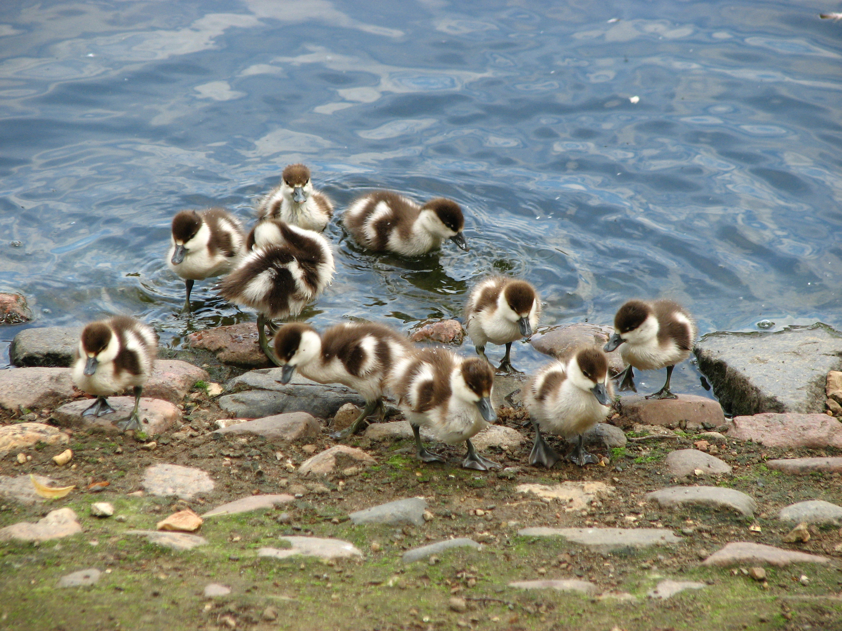 Moscow Zoo. Ruddy Shelduck (ducklings) (Tadorna ferruginea)